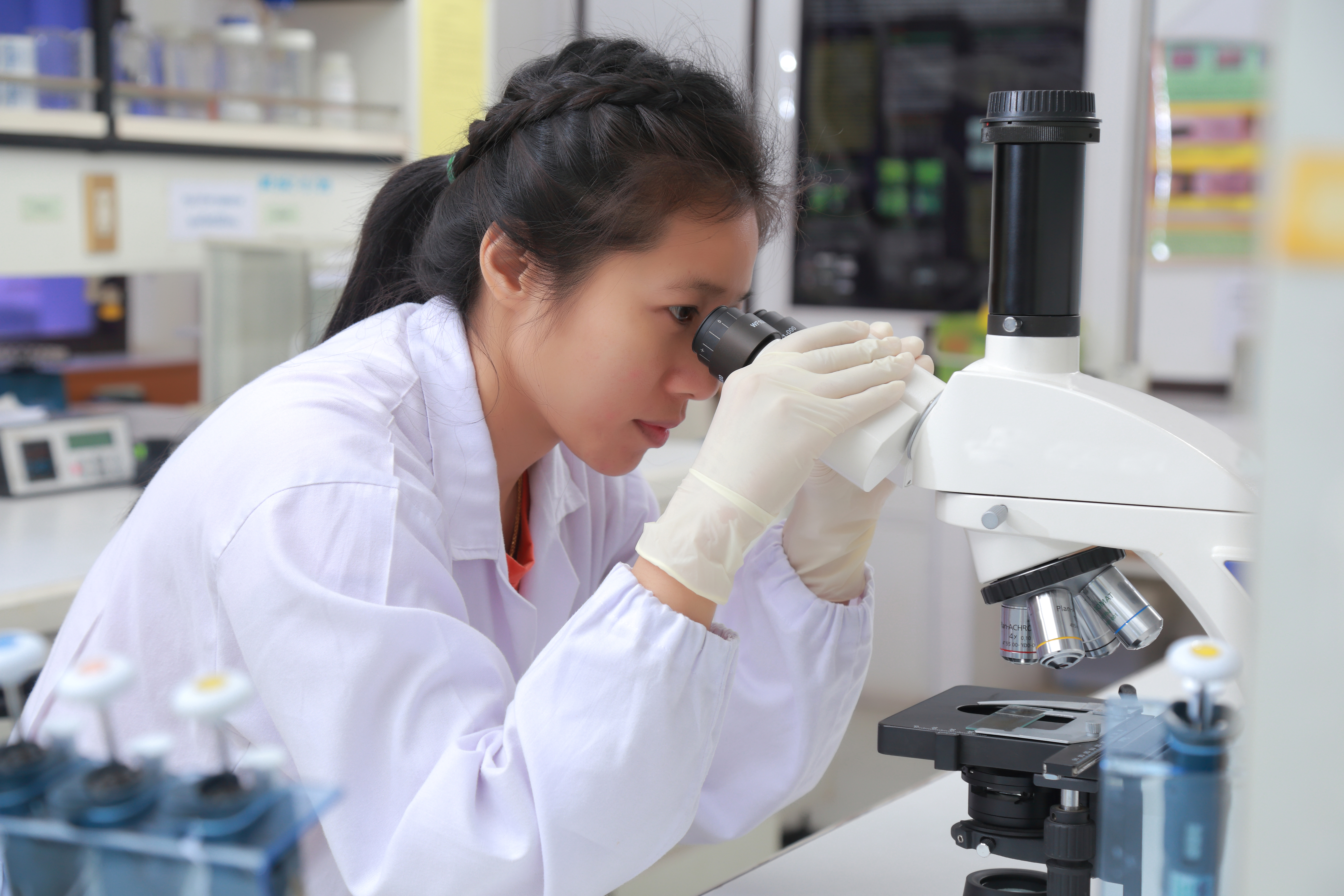 Scientists are working in the lab.